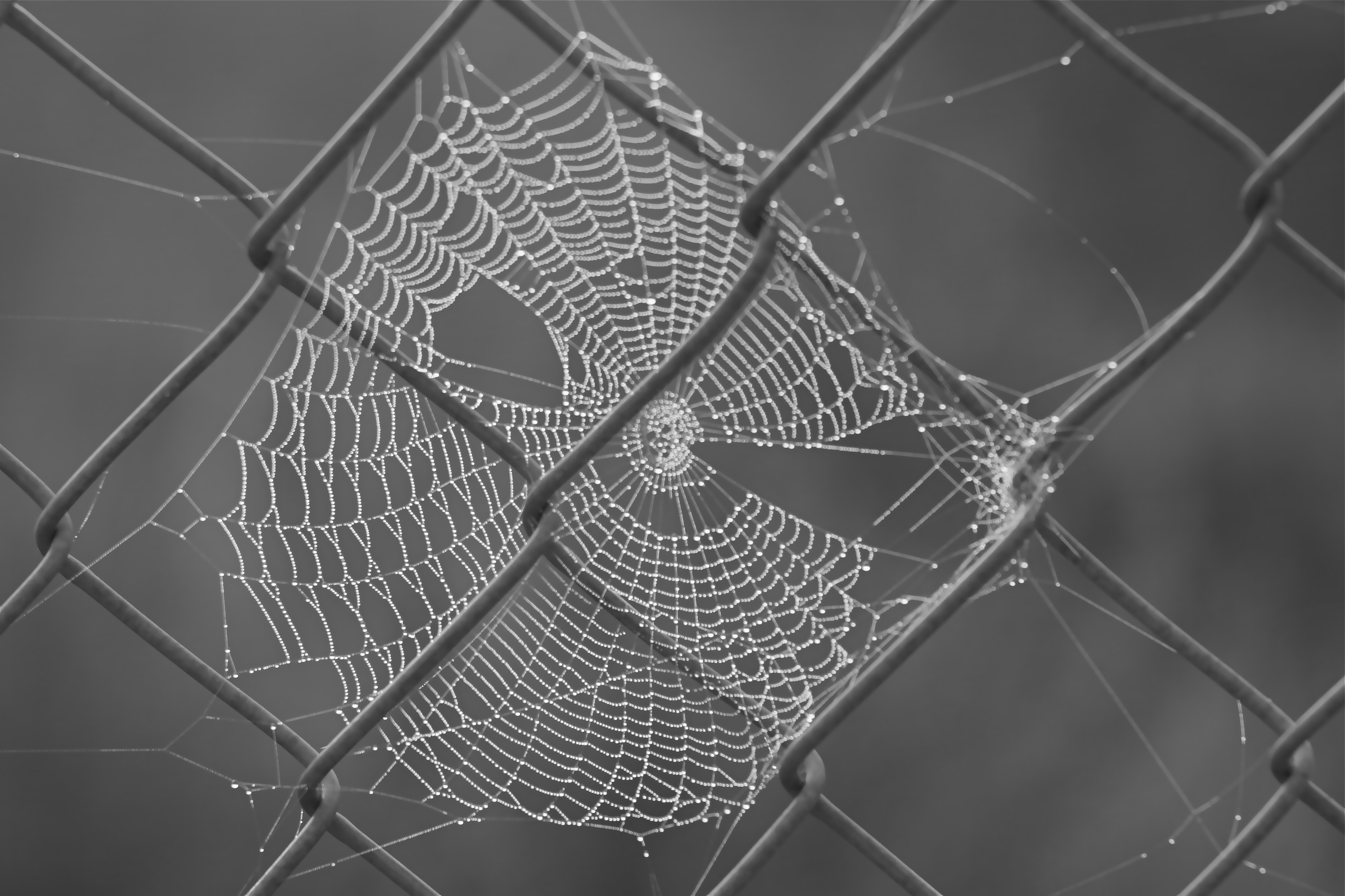 Spiders are master builders. This one wove its web in and around the links of this fence. Notice how the web is woven sometimes behind and sometimes in front of the fence wire. Amazing!